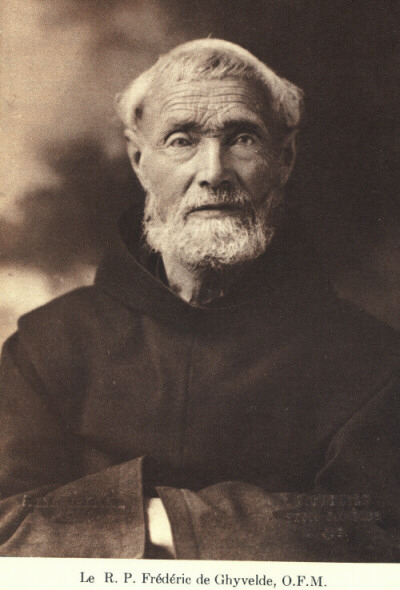 Father Frédéric Janssoone